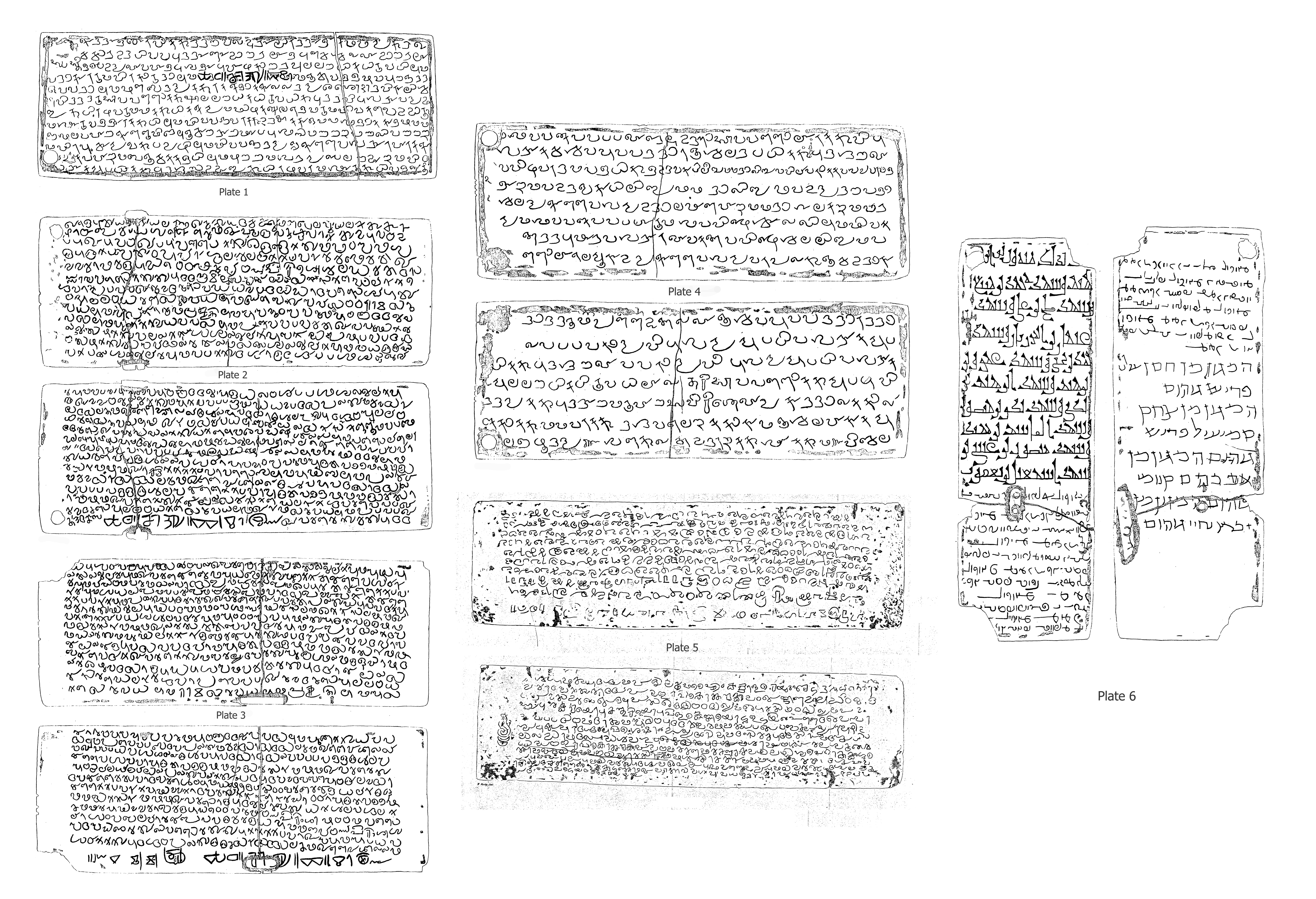 Quilon Syrian copper plates (849 and c. 883 CE)